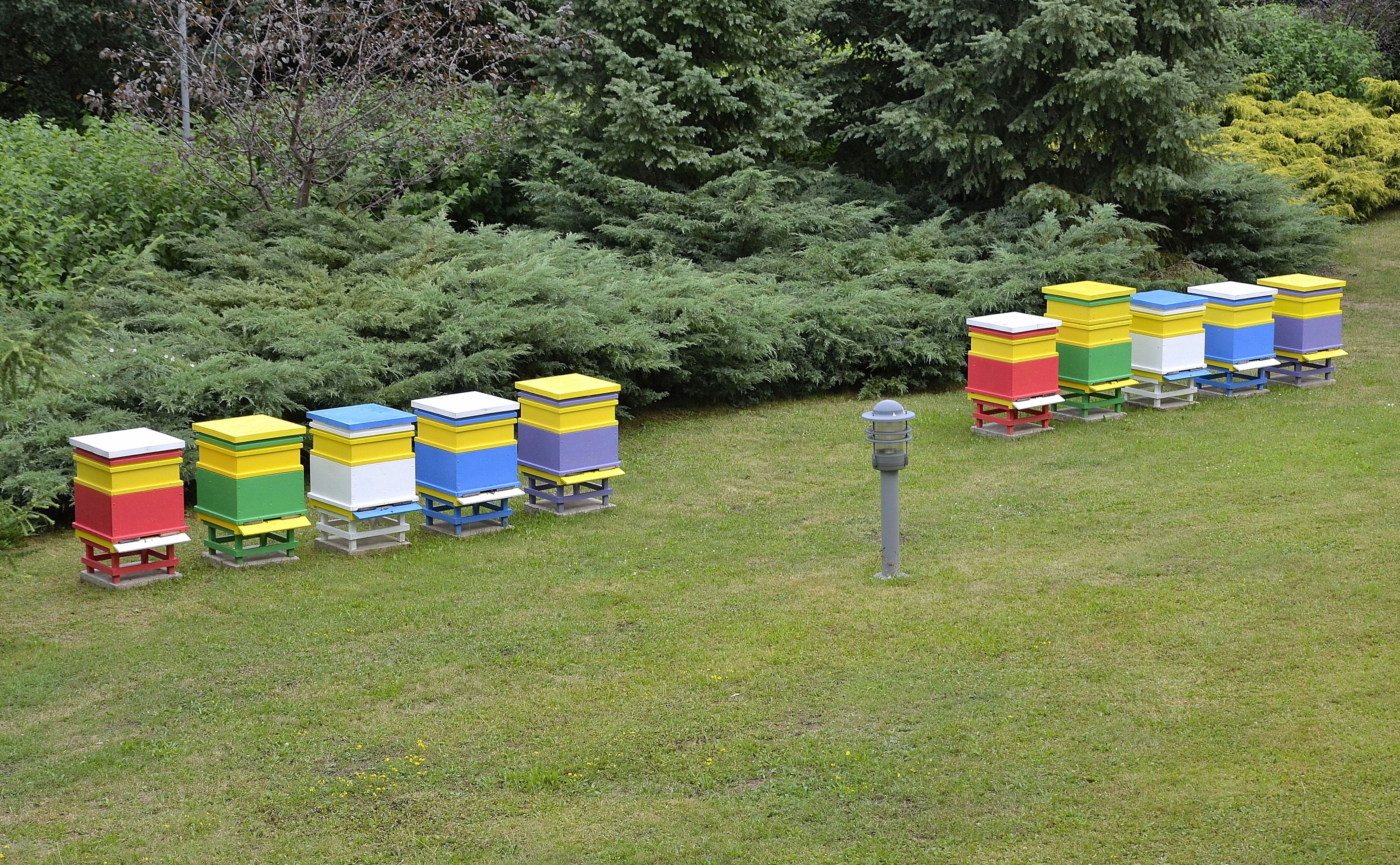 Beehives on the Sejm premises in Warsaw